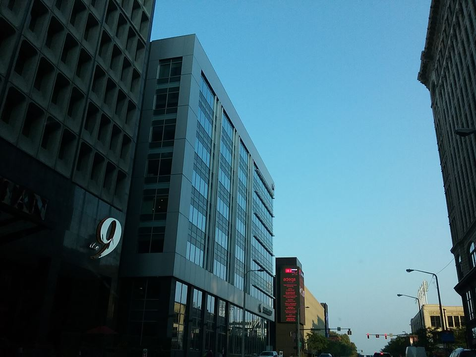 Cuyahoga County Headquarters